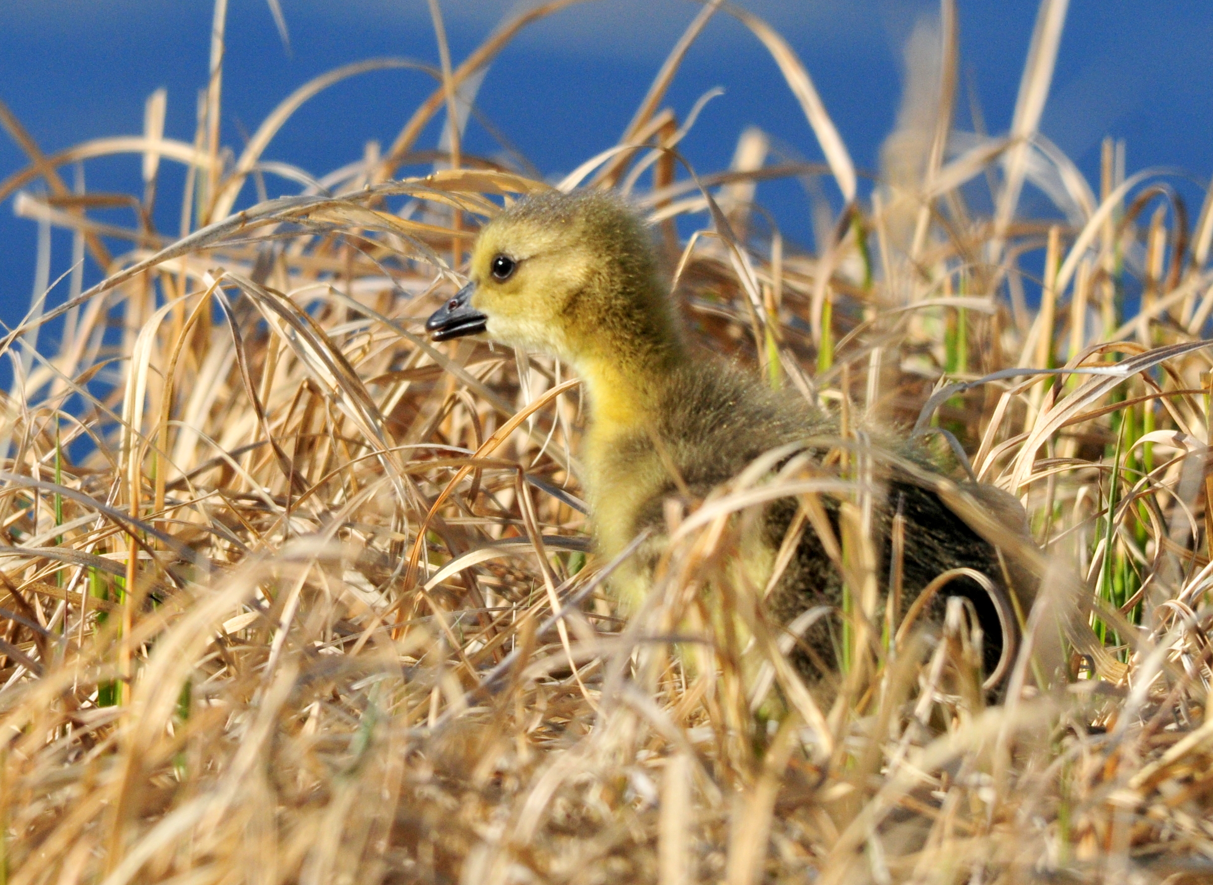 The first Canada goose gosling of the spring on Seedskadee NWR. Photo: Tom Koerner/USFWS